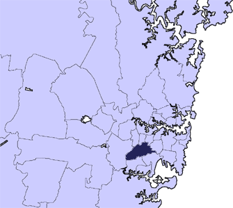 Based on File:Ku-ring-gai sydney.png by User:Randwicked.